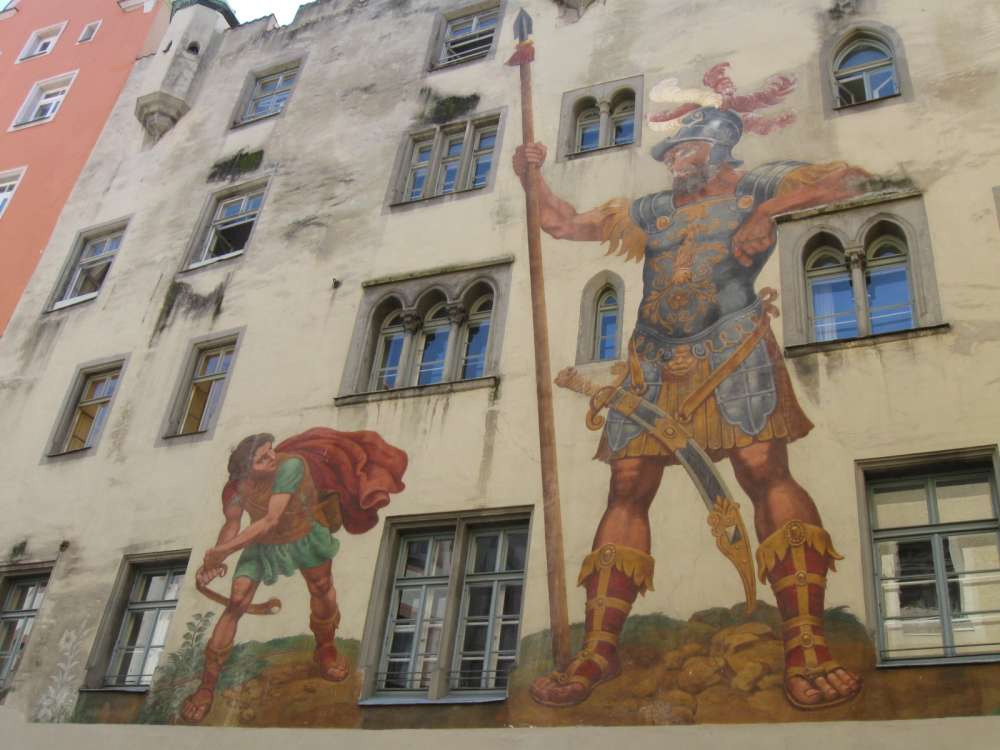 Goliath house in Regensburg, Germany